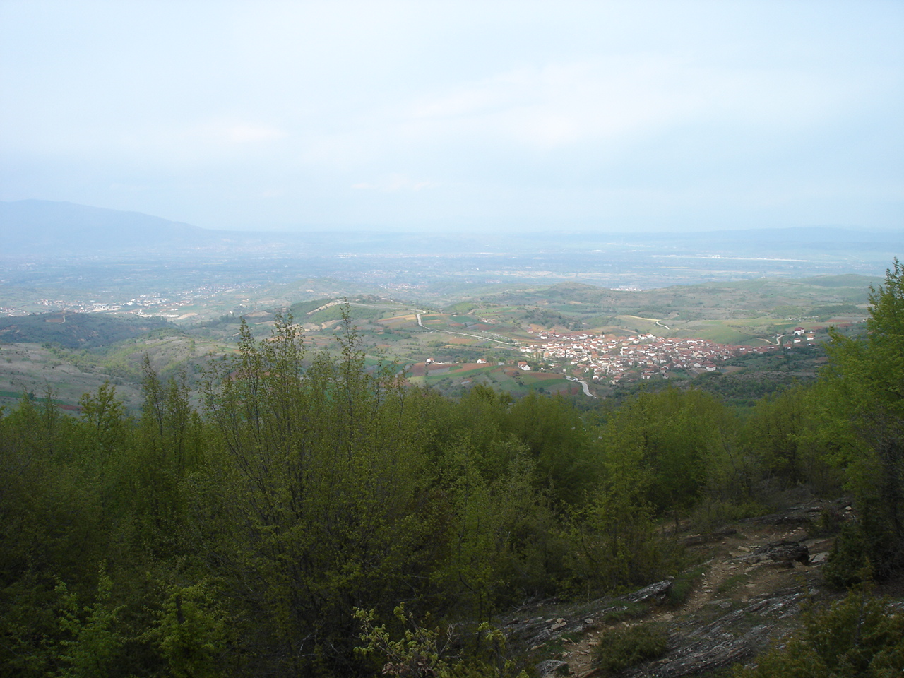 village of Dolno Kolichani, Macedonia